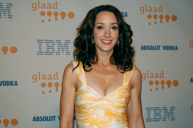 Jennifer Beals of The L Word at the 2008 GLAAD Awards